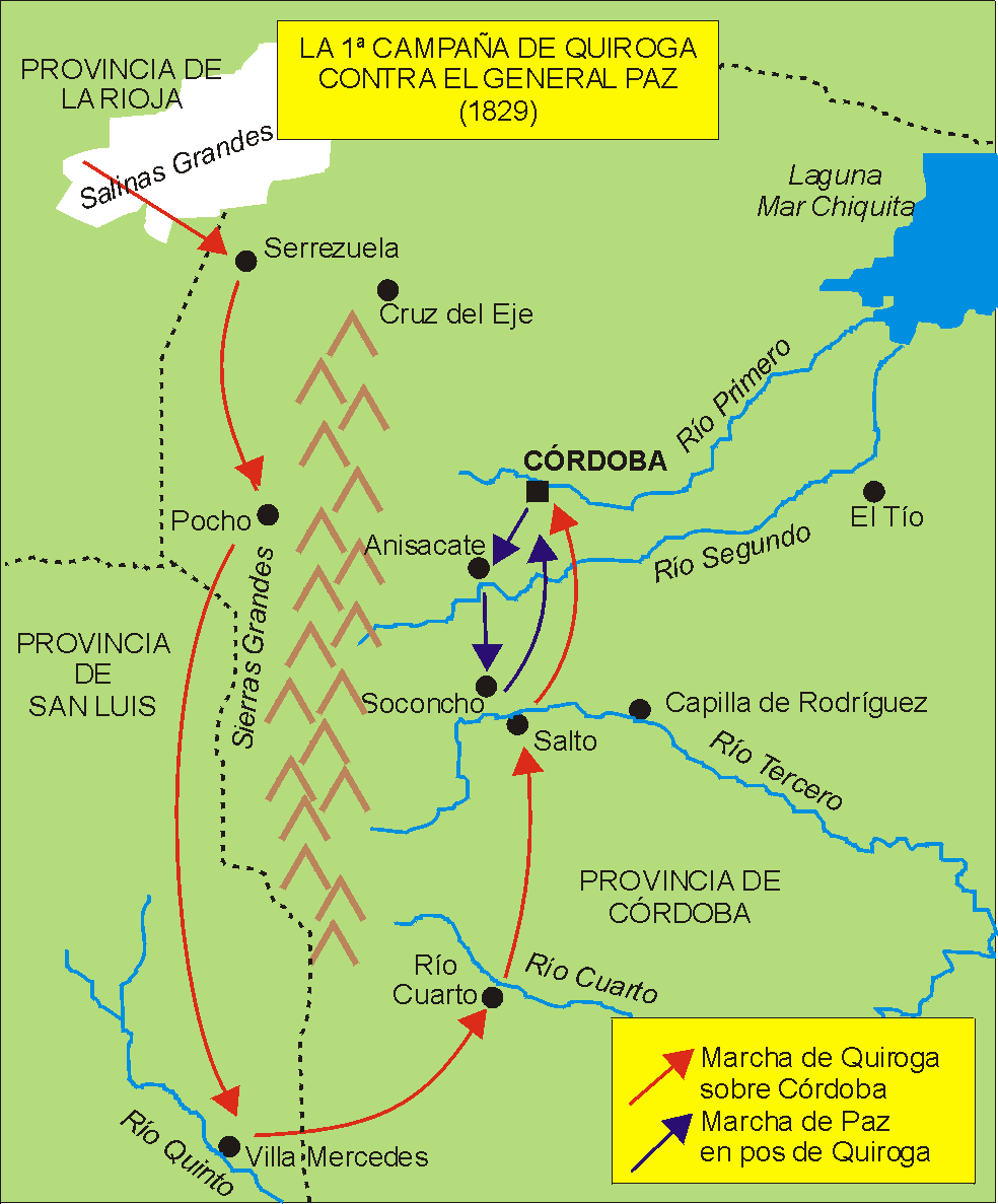 First Campaign of Quiroga in Córdoba province (Argentine civil war 1829-1831)